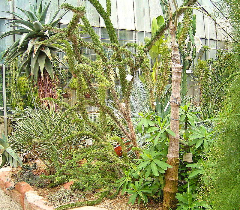 Succulent plant collection - BG Heidelberg, Germany